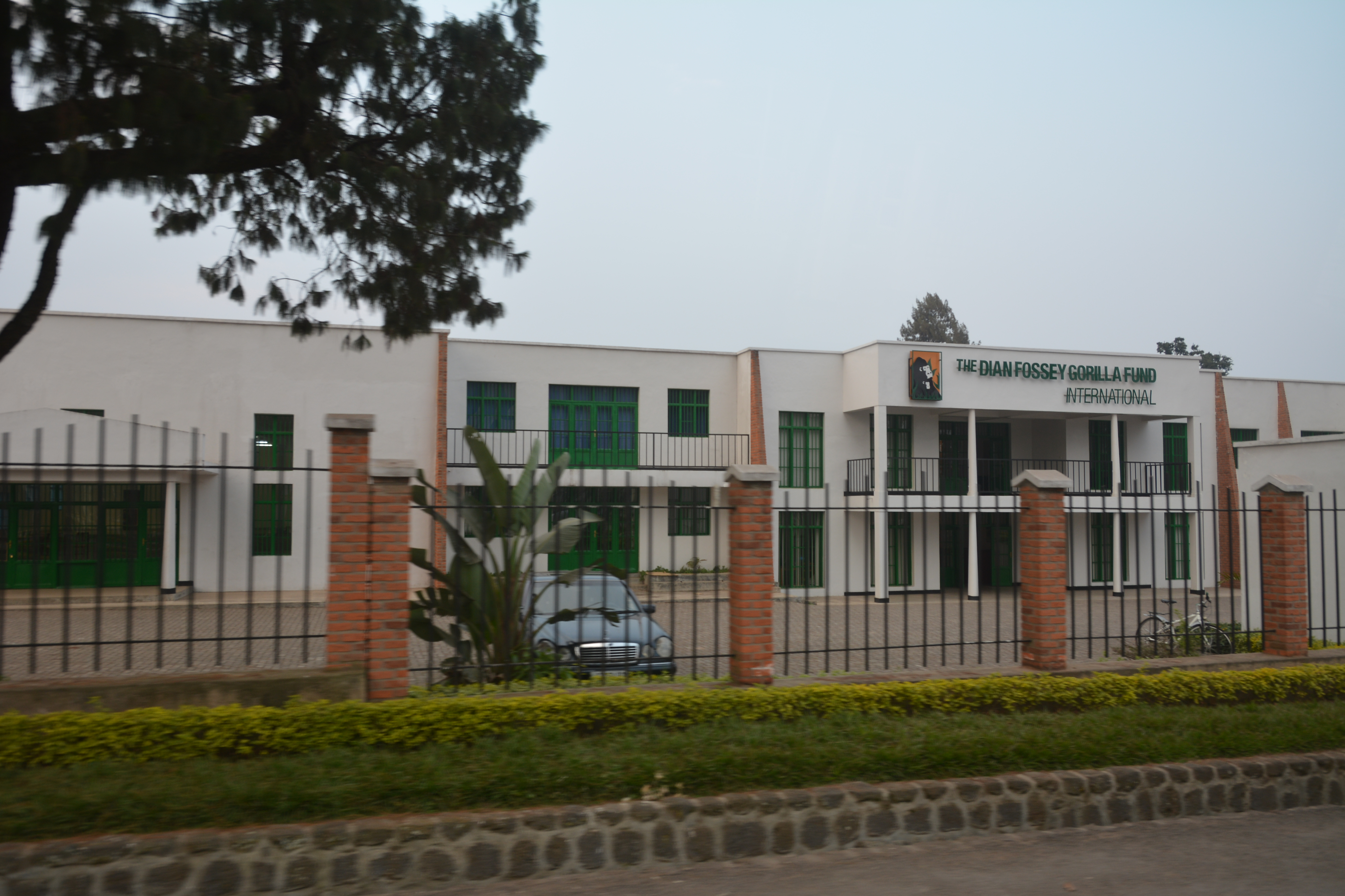 The Dian Fossey Gorilla Fund International (headquarters in Rwanda)